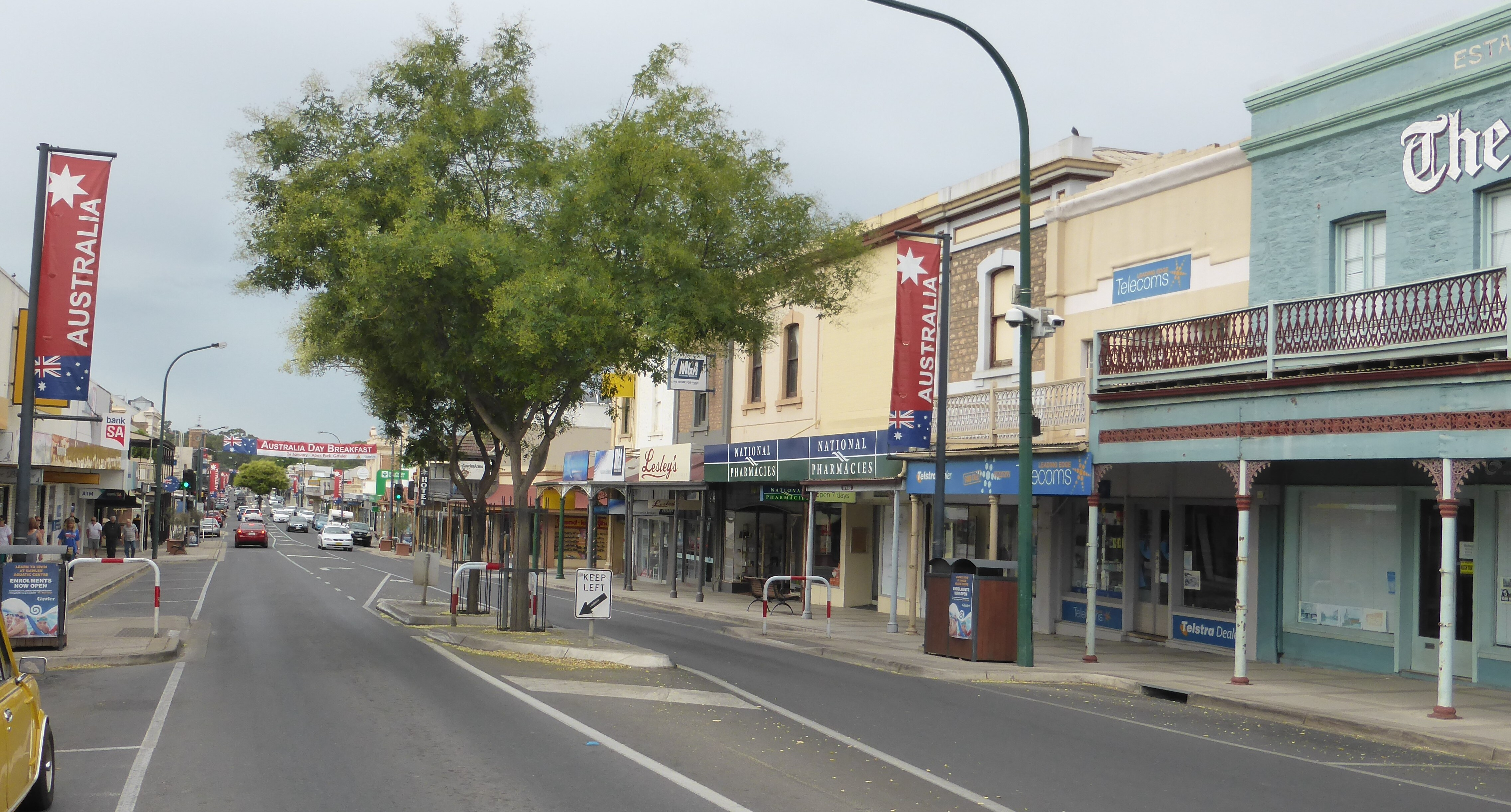 Photo - Brian Thom We have many old photos of Murray Street but I feel that it is important to have current photos so we can see how the street develops over the years. The trees were placed in the middle some 10 years ago and we can see how they have grown quite stately and are now flowering - pruned by passing trucks. You are assured that this is not typical traffic - taken 10am on Australia Day public holiday.